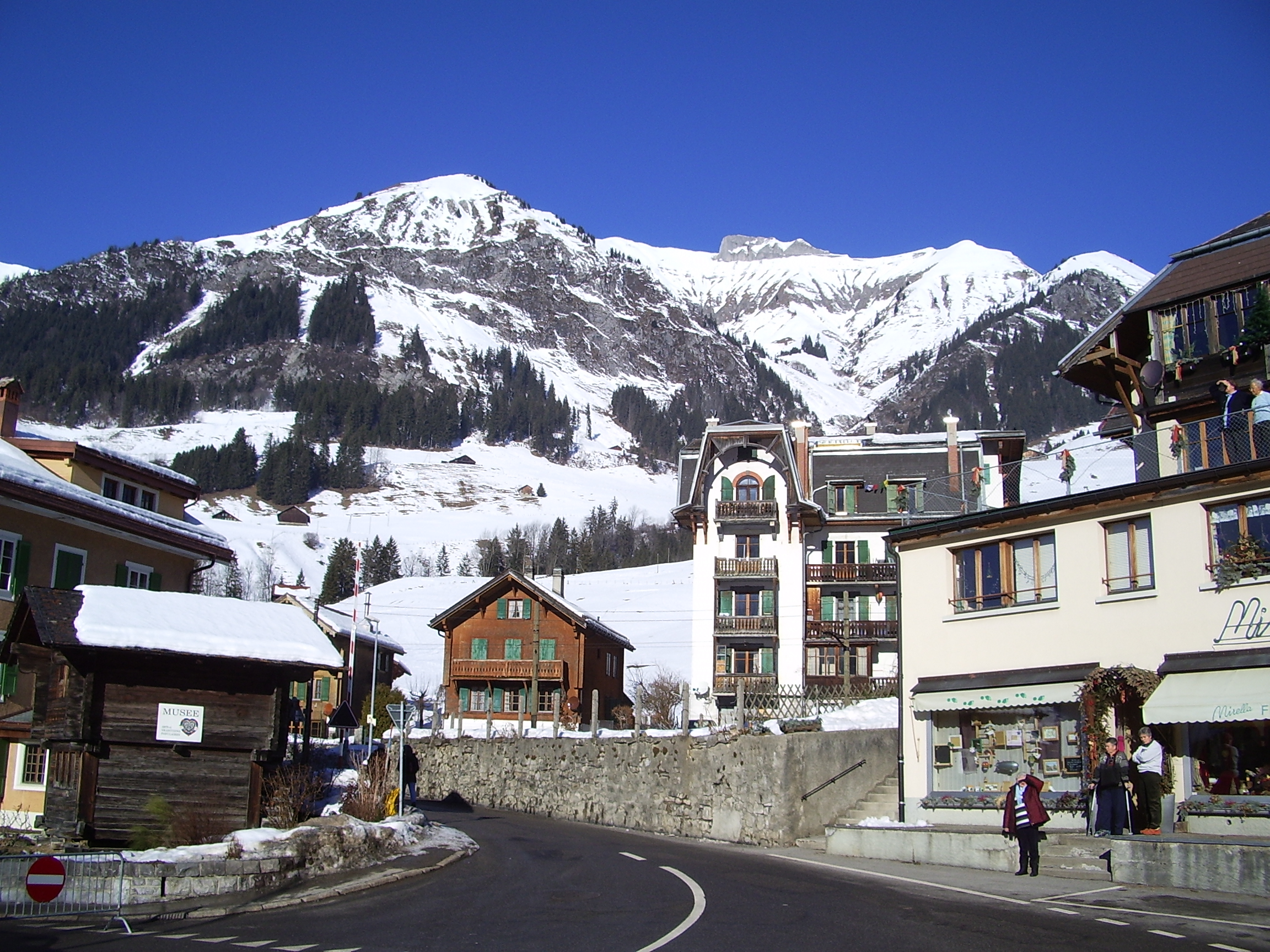 View of Chateaux d'Oex (Switzerland)